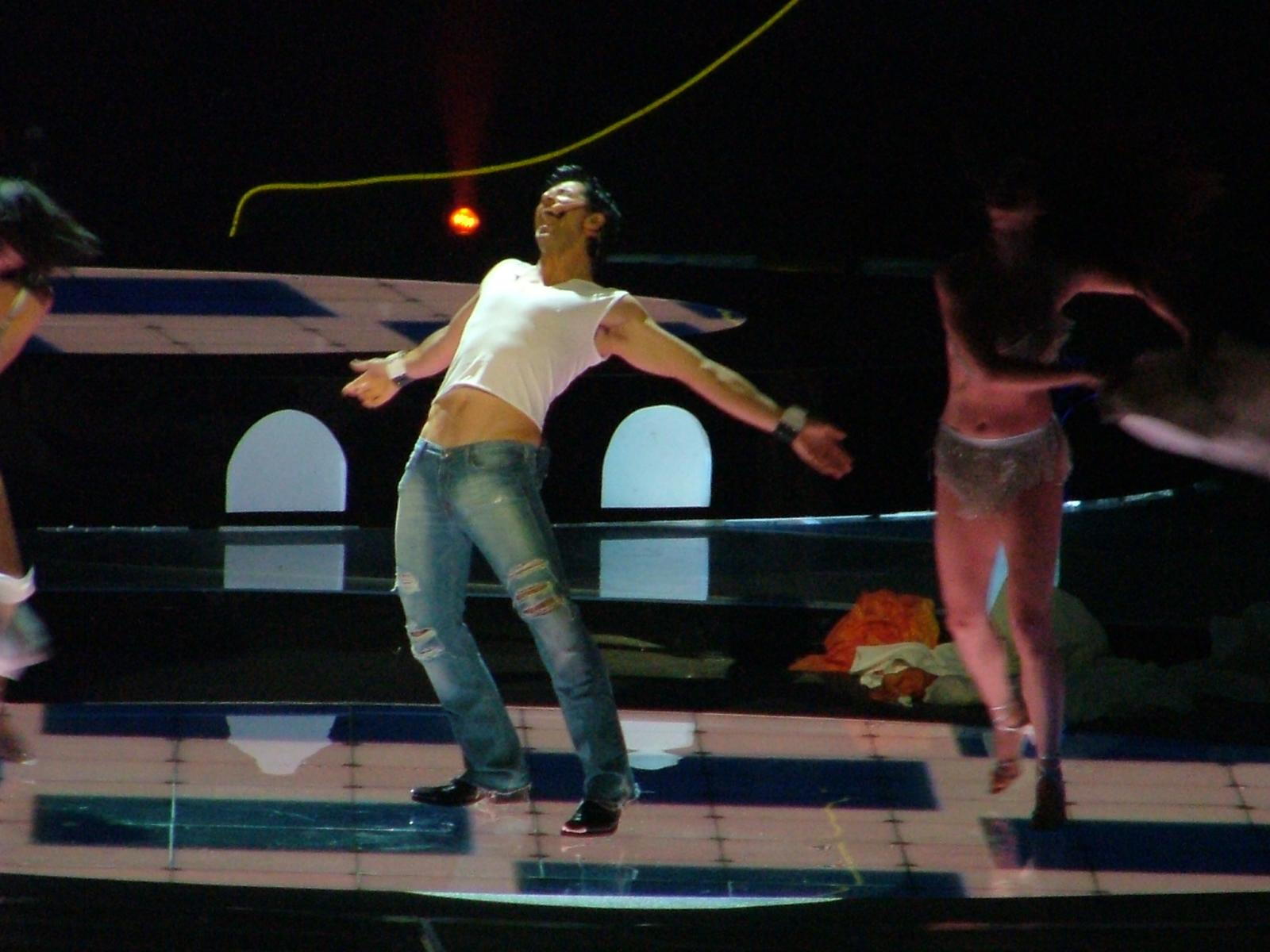 Sakis Rouvas performing "Shake It" at ESC 2004